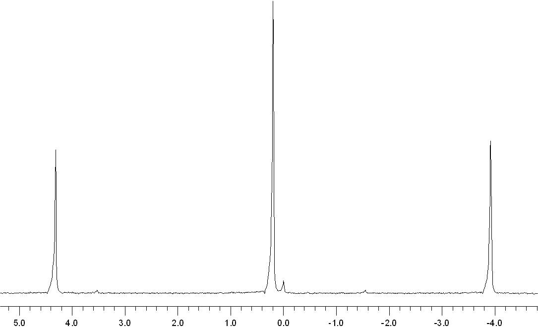 31P NMR spectrum of phosphinic acid in pyridine